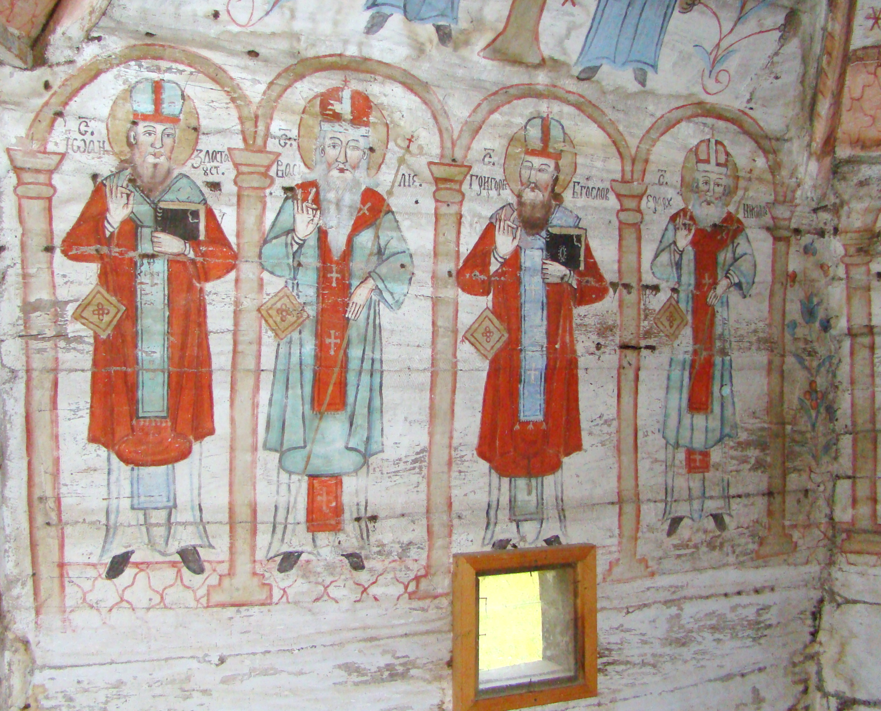 Wooden church of St.Archangels in Cupșeni, Maramureș county, Romania